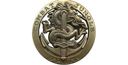 Badge jungle combat in the 9th Marine Infantry Regiment.